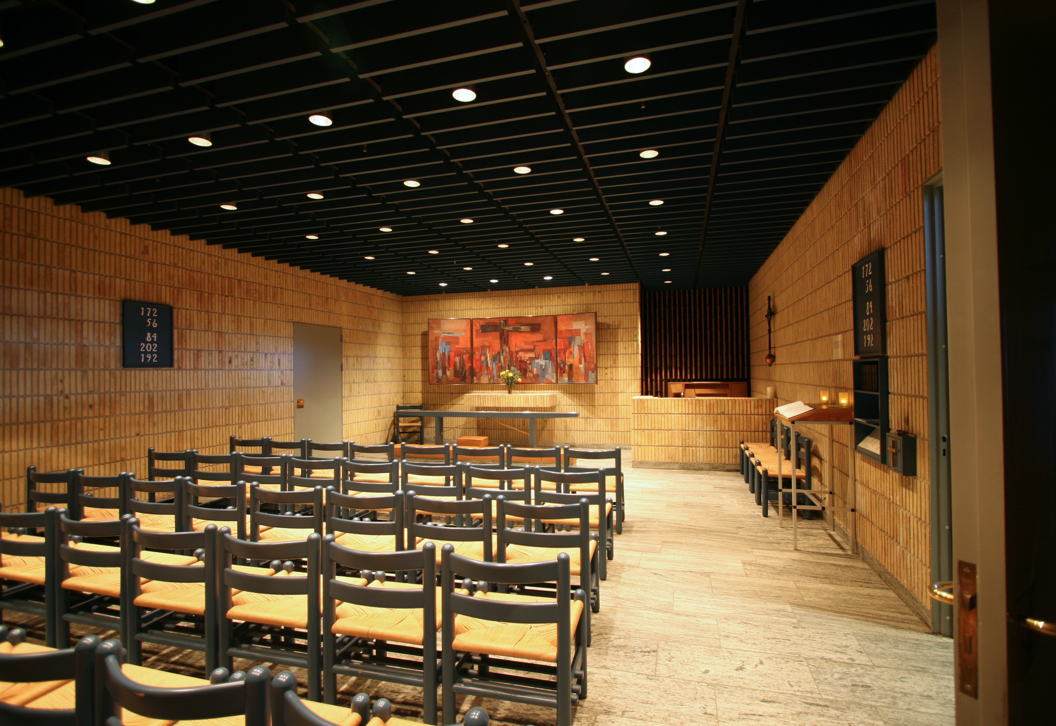 Rigshospitalets Kirke, Copenhagen, Denmark. Church of the Danish National Hospital. Interior.